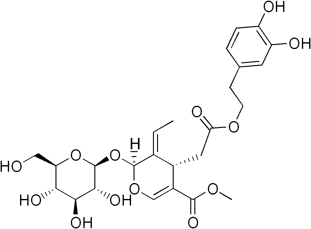 chemical structure of oleuropein